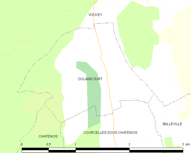 Map of French municipality Dolaincourt